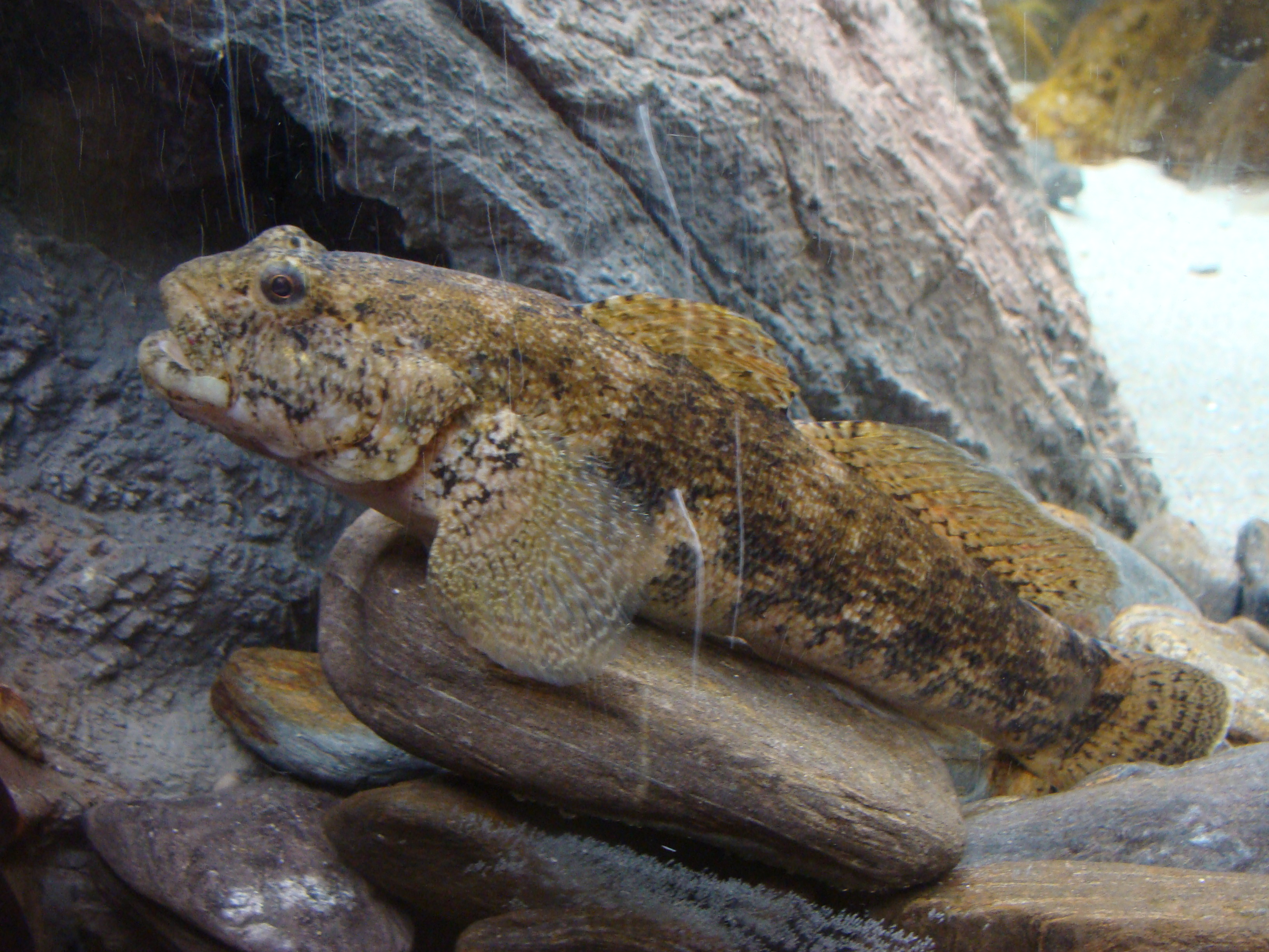 Gobius cobitis (Giant goby) in Sala Humboldt of Aquarium Finisterrae (House of the Fishes), in Corunna, Galicia, Spain.